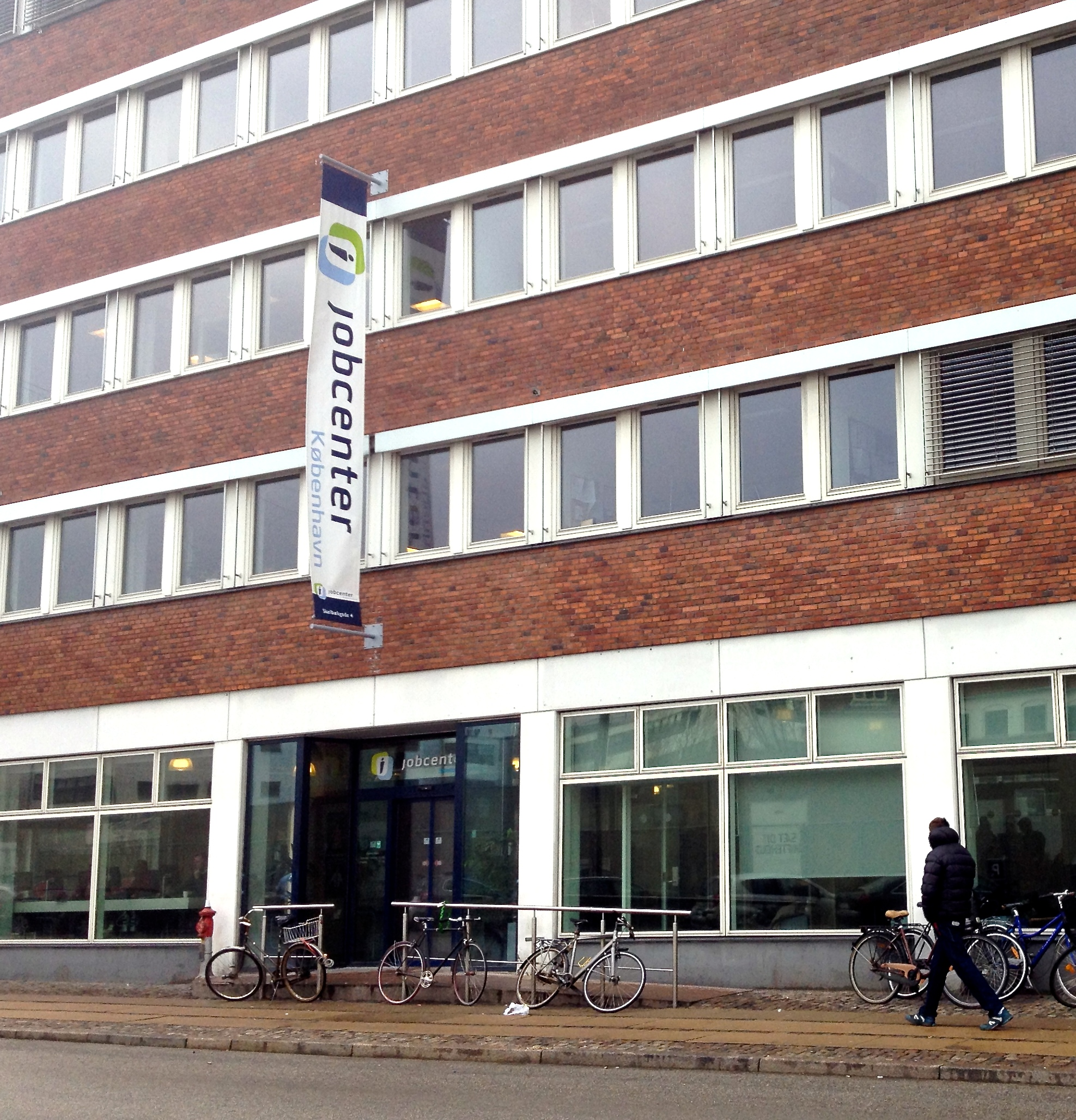 Jobcenter, Skelbækgade, København